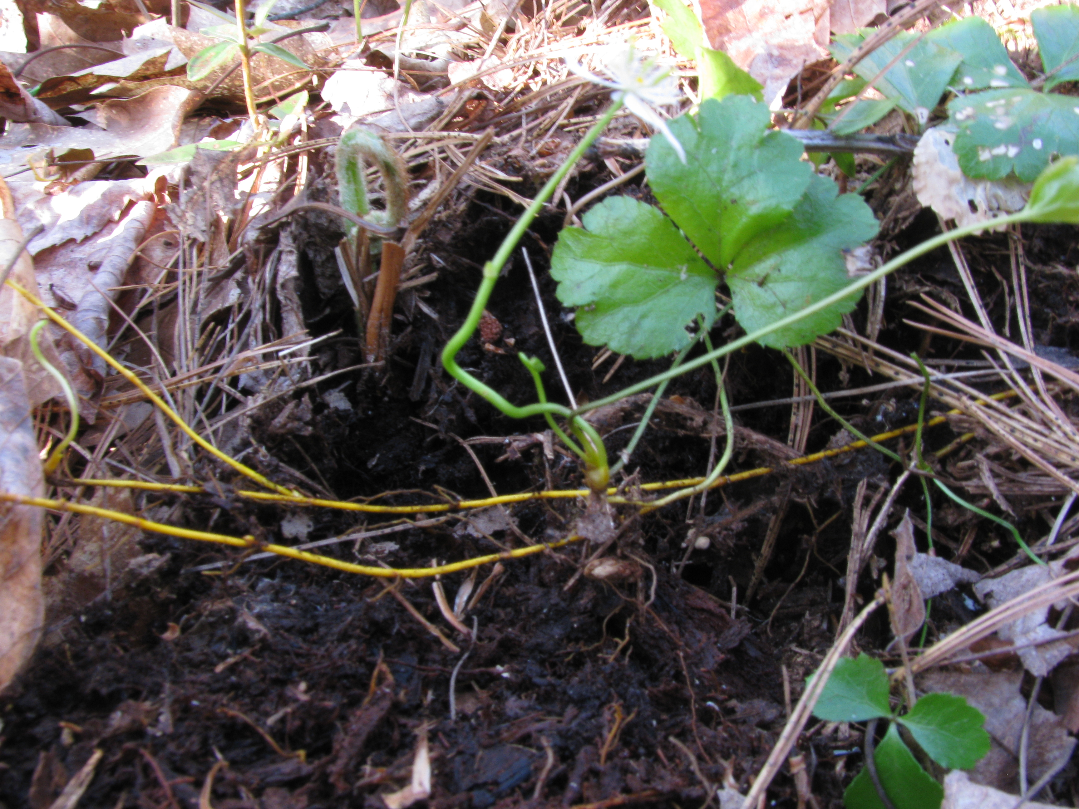 Goldthread (Coptis trifolia), with rhizomes exposed. The plant's common name is derived from the appearance of the rhizomes.